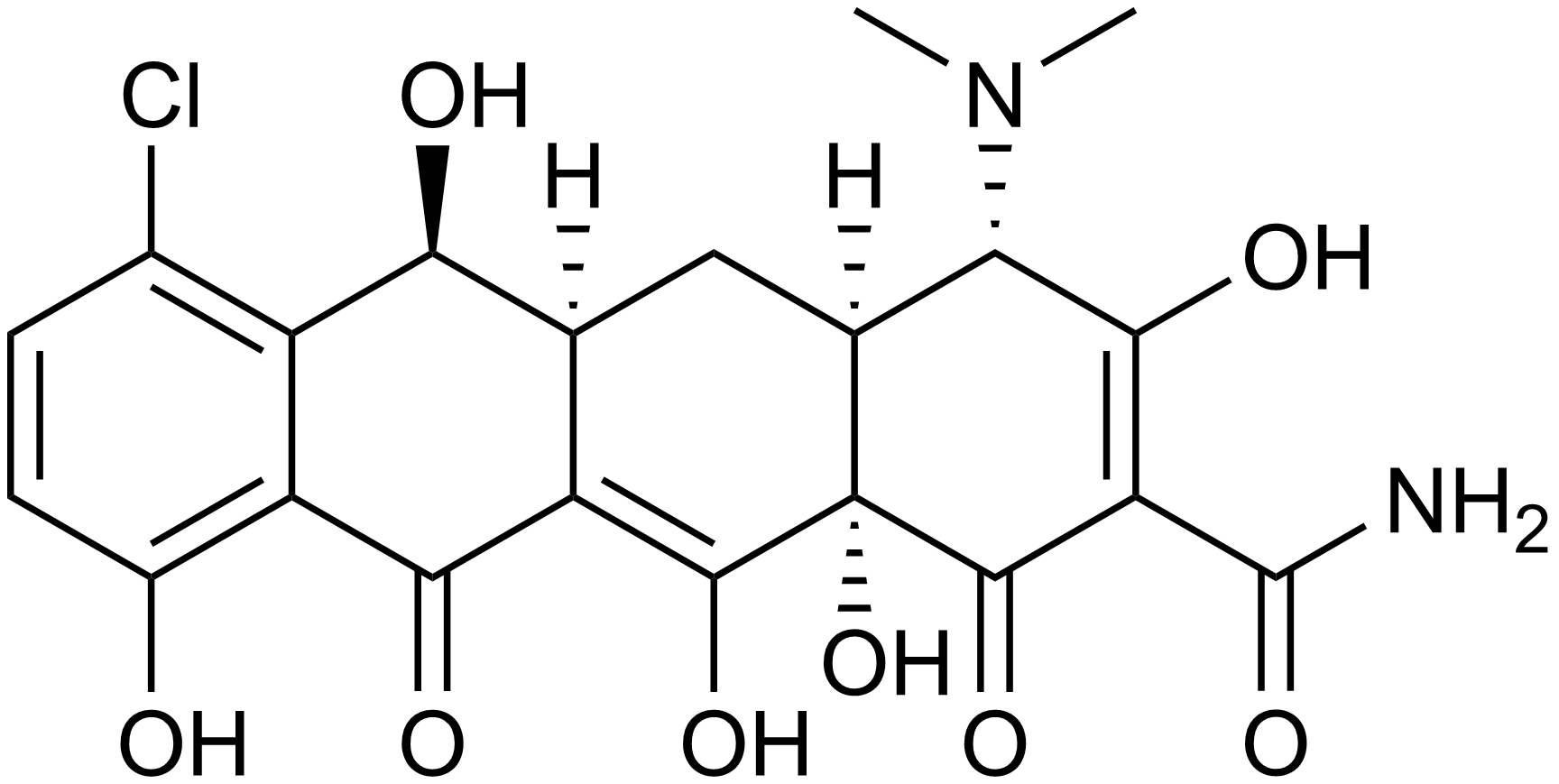 Chemical structure of demeclocycline